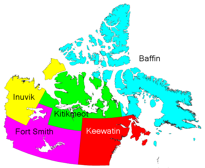 Regions of Northwest Territories, Canada (as existing before 1999)